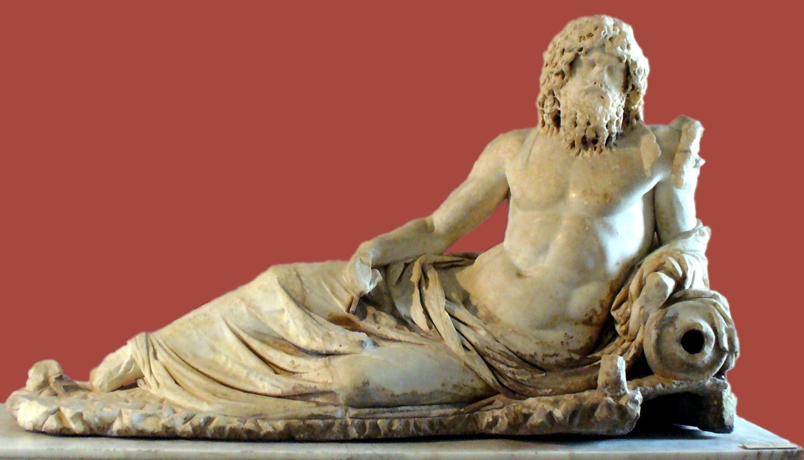 Statue of Oceanus, now at the Istanbul Archaeological Museum. I've tidied up my photo and substituted a plain red background.